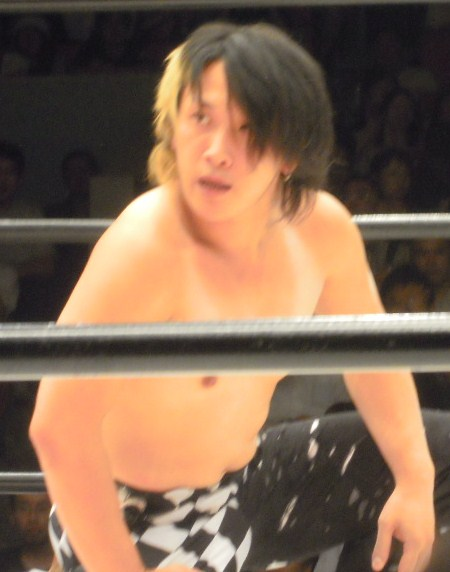 Japanese professional wrestler,Masaki Okimoto. BJW July 30 2010 Korakuen Hall.